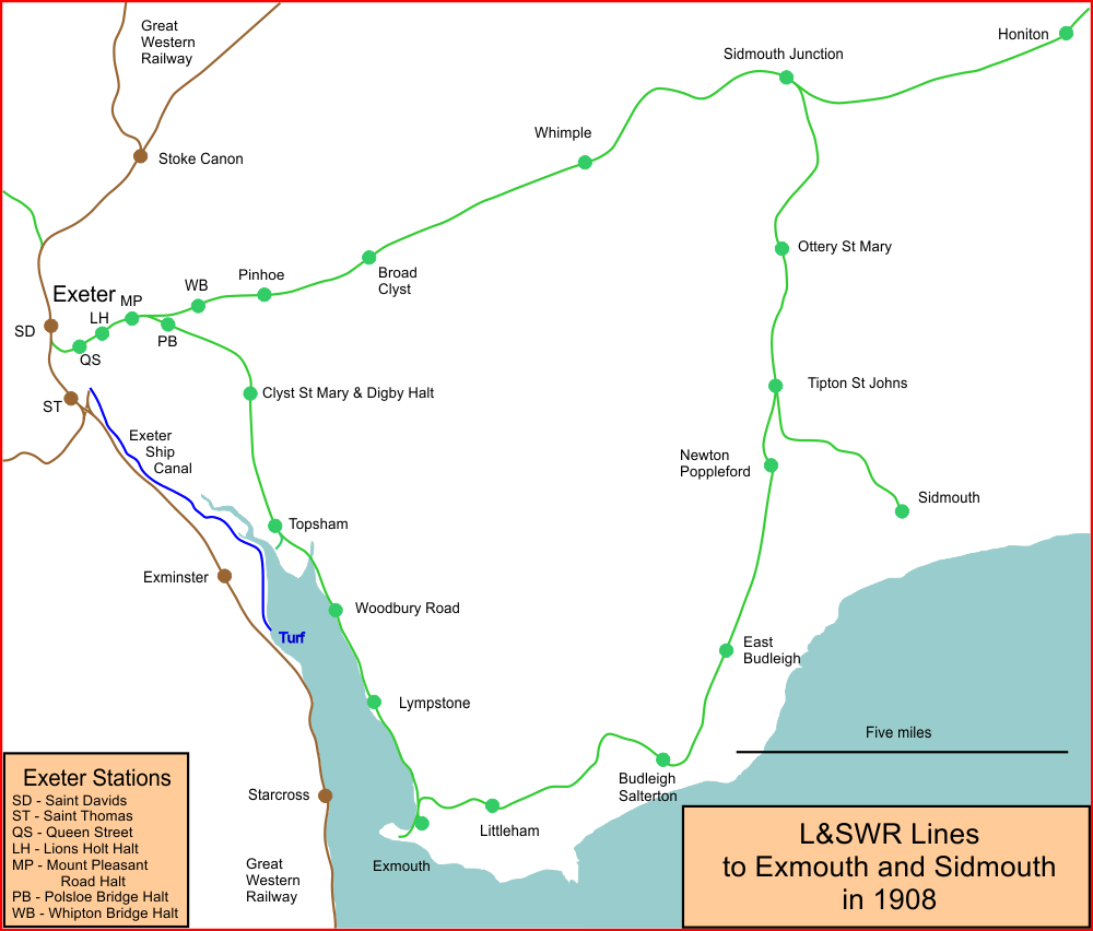 Map of LSWR railway branches to Exmouth and SIdmouth, Devon, UK in 1908